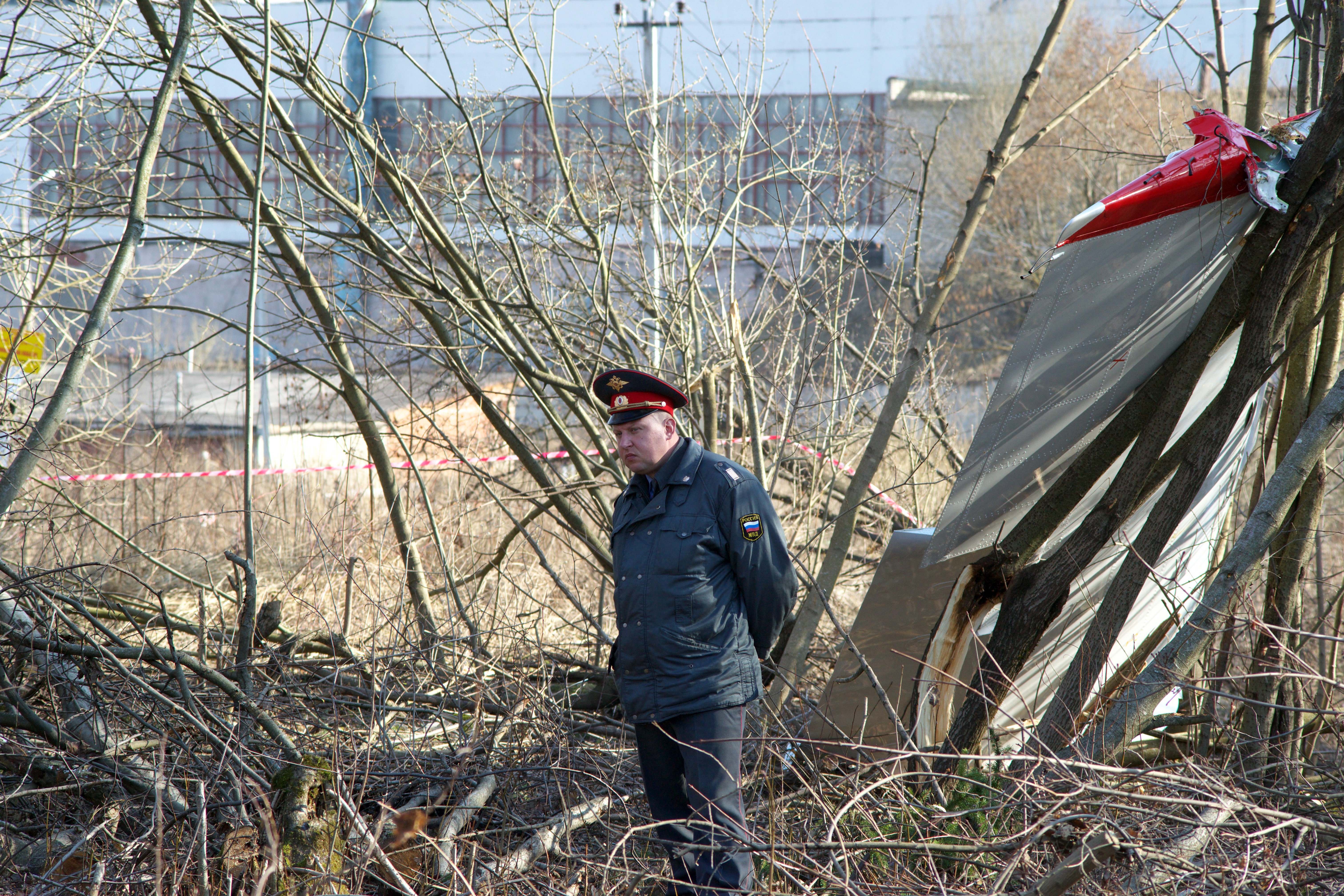 Fragments of TU-154 the Polish president at the crash site in Smolensk. Part of wing